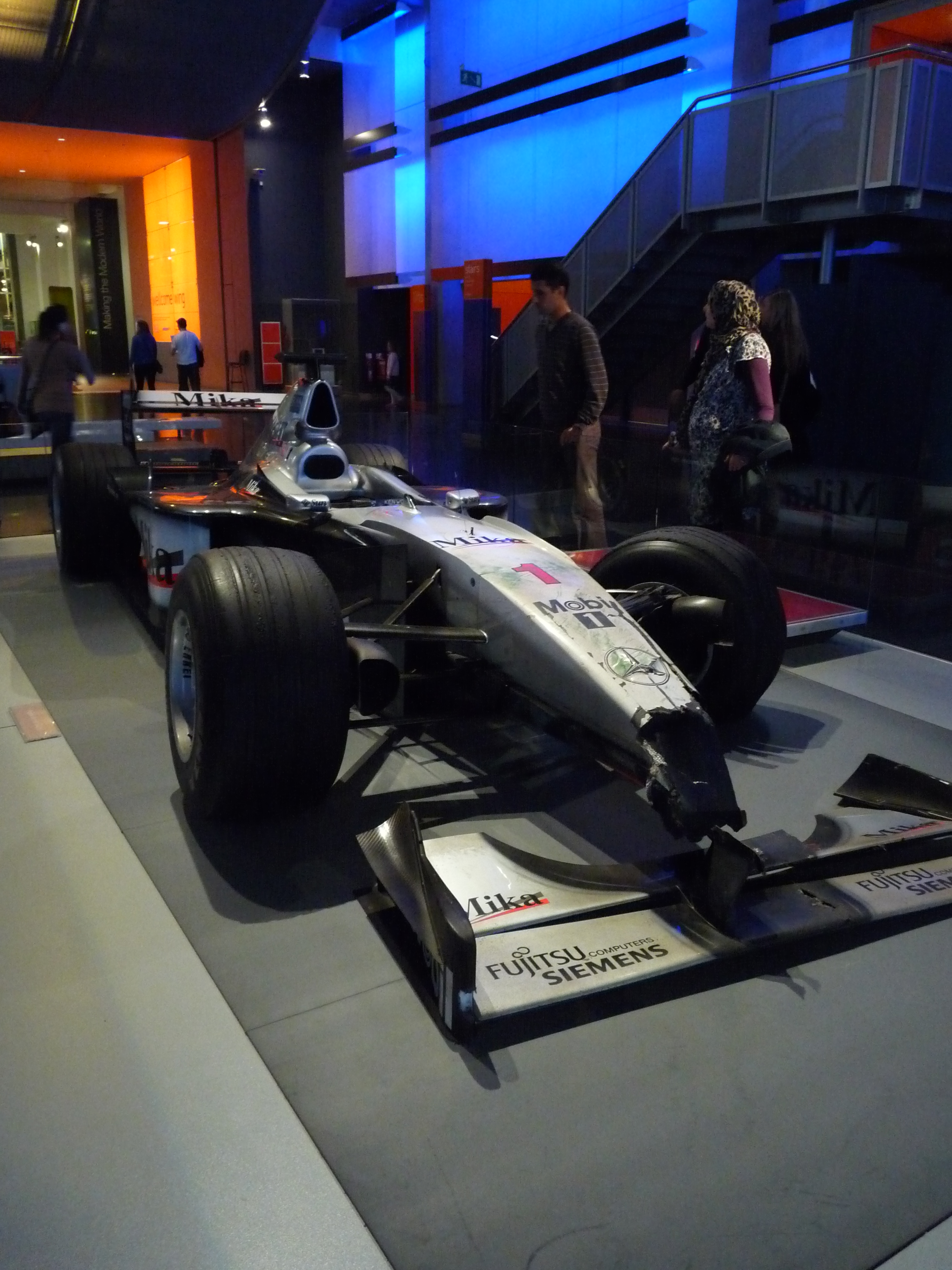 Part of a technical display at the London Science Museum: a McLaren Mercedes MP4/14 Formula One car, driven by Mika Häkkinen during the 1999 German Grand Prix. Häkkinen crashed on lap 25 due to a tyre failure, resulting in the car hitting a barrier head-on (hence the damage to the nosecone). As of 2016 the car is no longer on display.